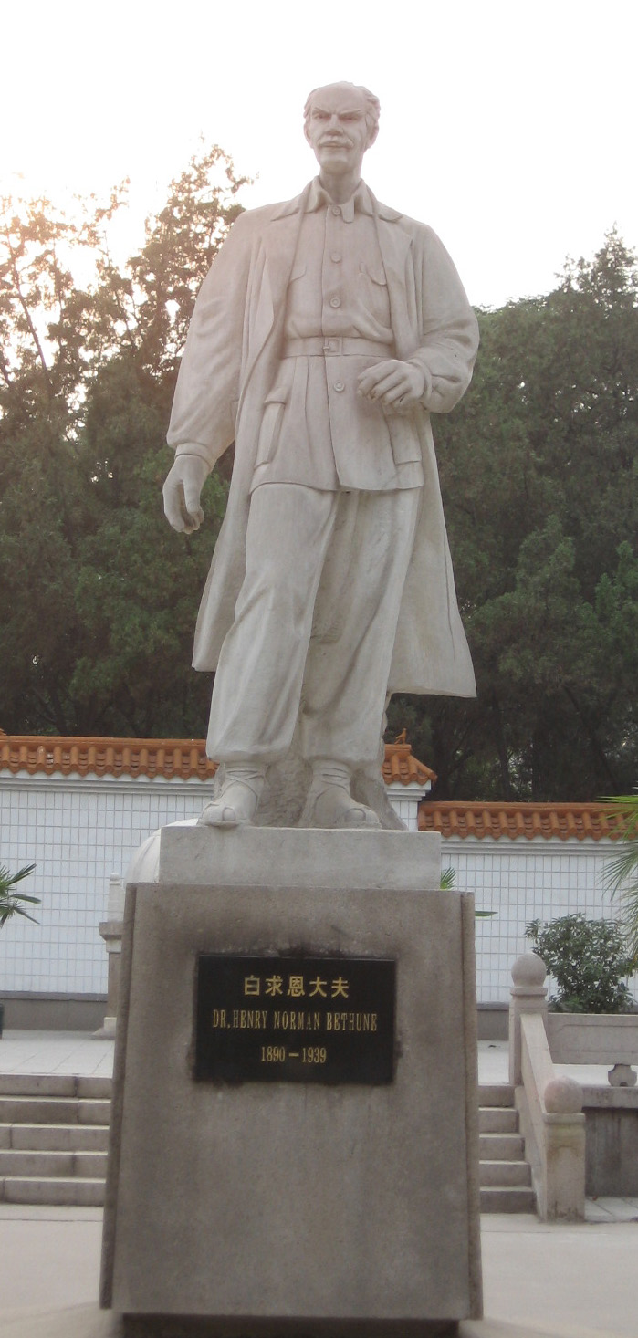 A statue of Norman Bethune in Shijiazhuang Hebei,China.中国河北省石家庄市华北军区烈士陵园内白求恩墓前的白求恩像。